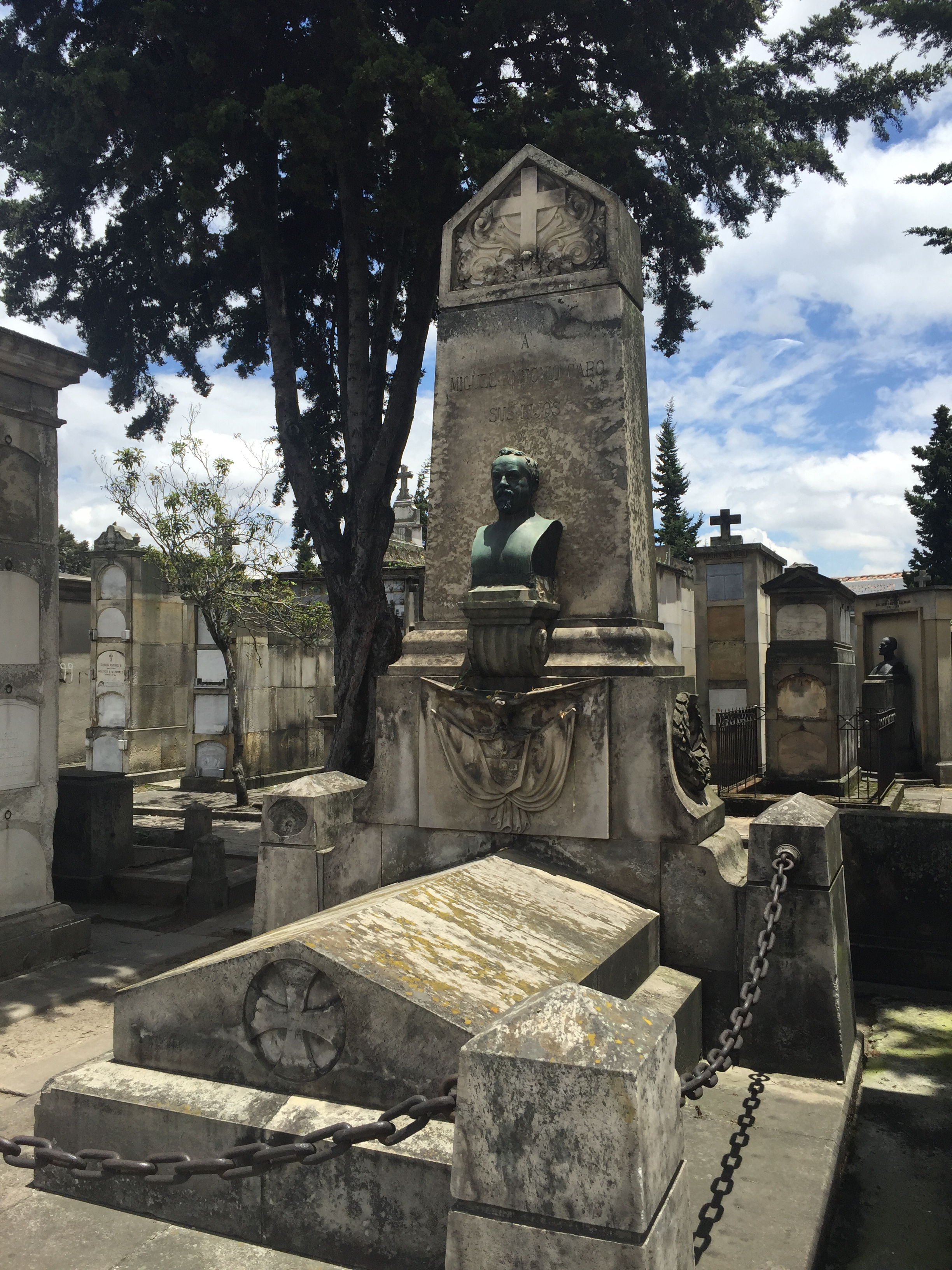 Grave of Miguel Antonio Caro, President of Colombia.